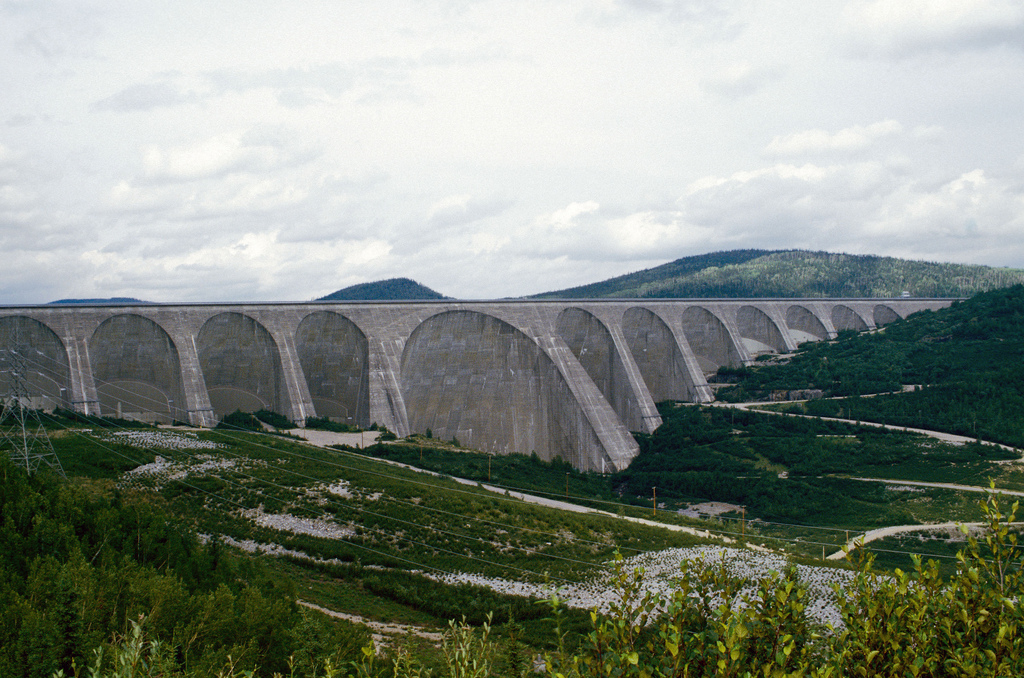 17 Juillet 1998, Barrage Manic-5, Manicouagan,Cote-Nord,Q.C Canada